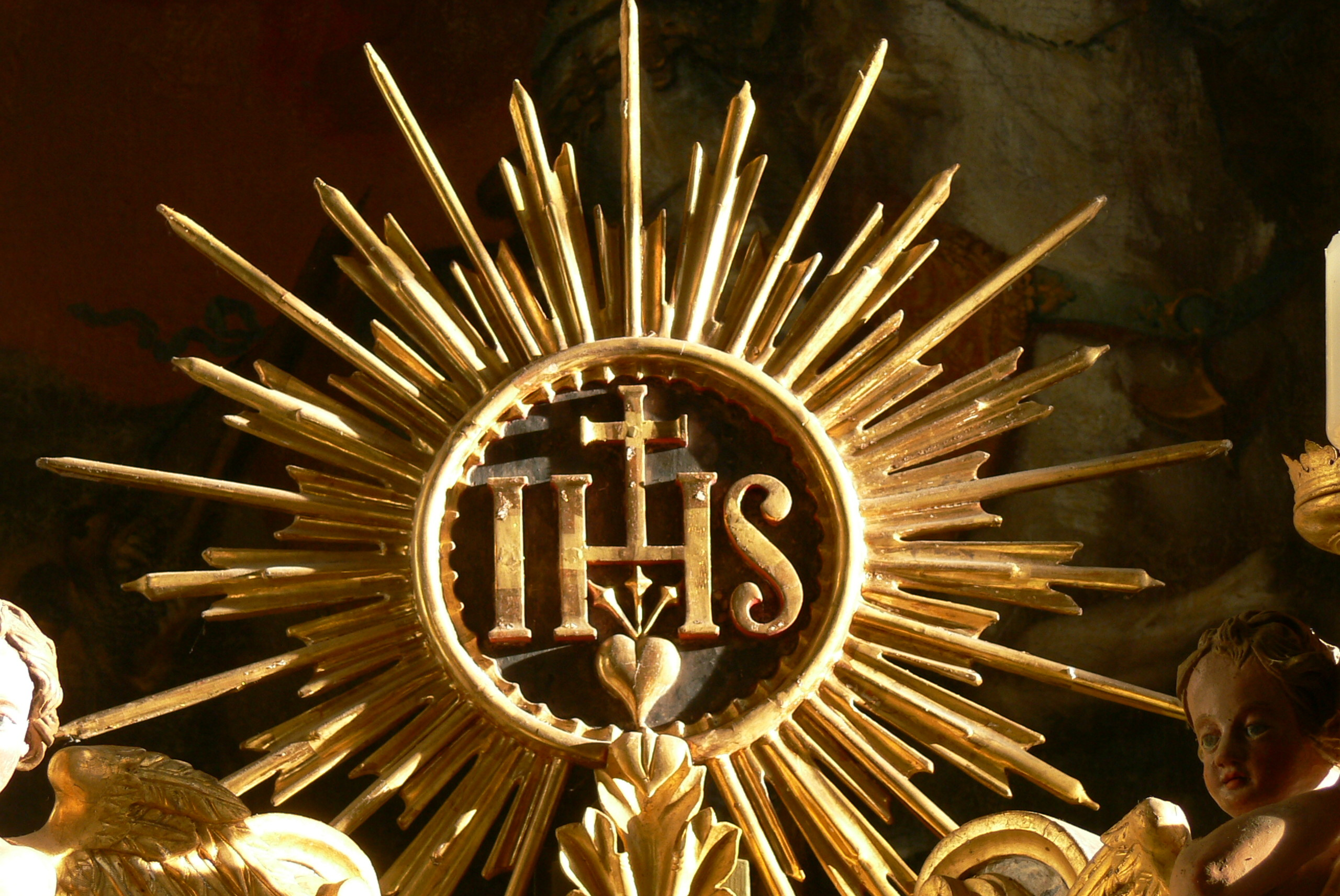 Auberg ( Upper Austria ). Saint George church in Hollerberg: Altar of Saint George - Rococo-style tabernacle ( 1900 ) by J.Kepplinger: Jesus-Monogramm IHS.